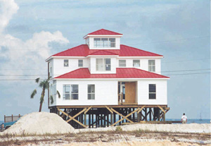 Dauphin Island, Alabama -- Project Impact principles at work - improved construction materials enable homes to withstand severe weather. -- FEMA News Photo